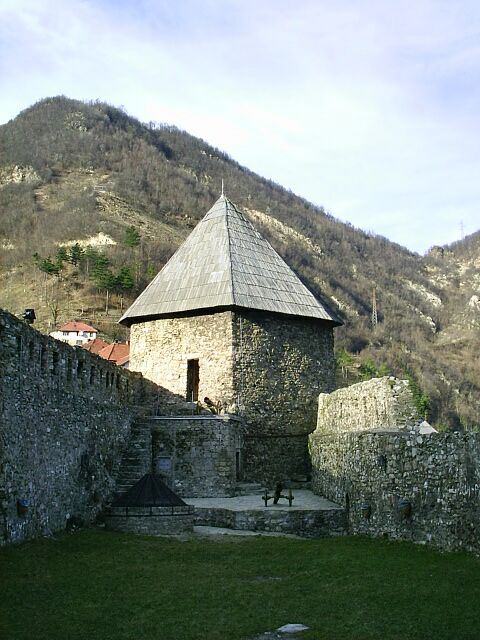 The village of Vranduk with a neighbouring castle, BiH